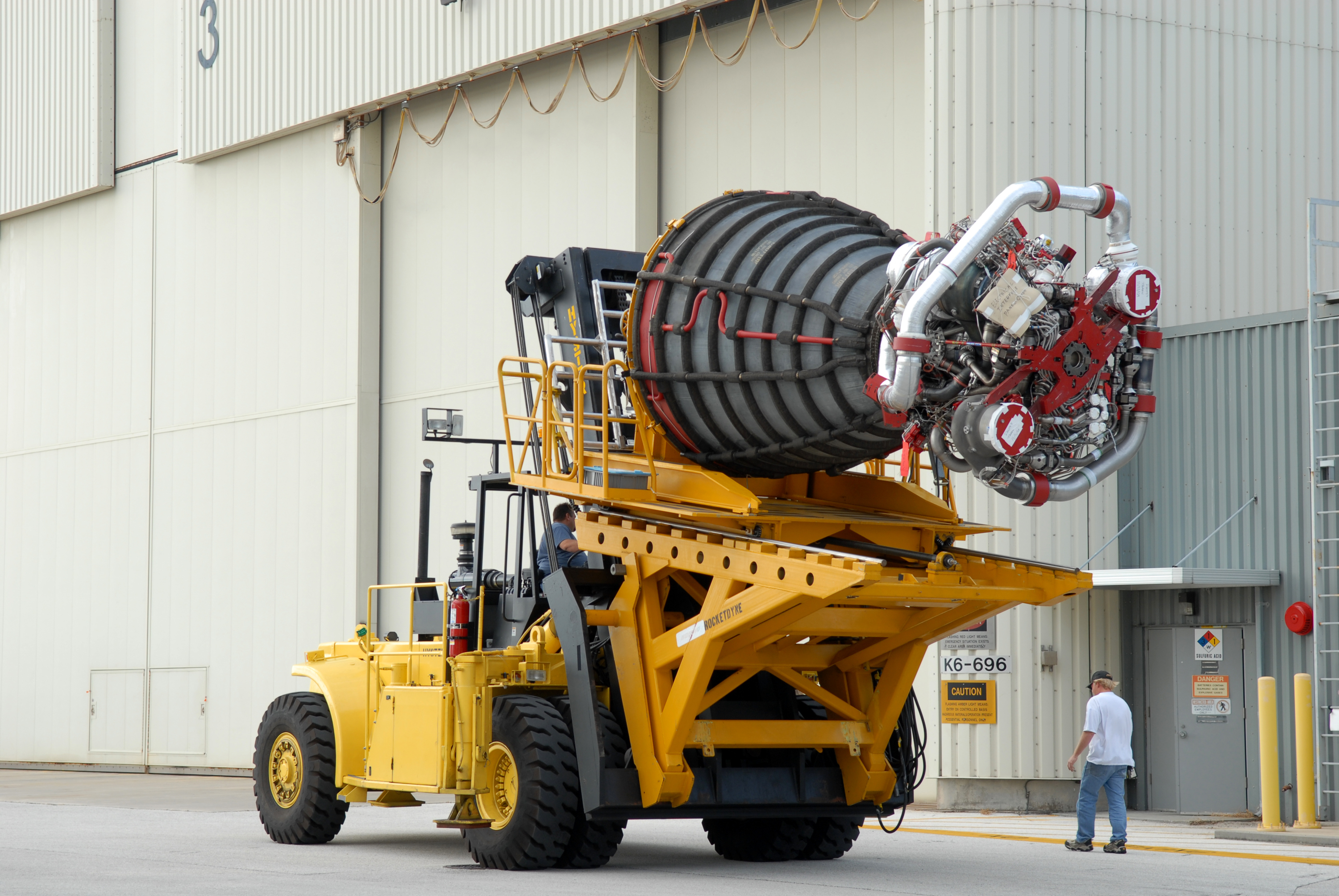 At NASA's Kennedy Space Center in Florida, a space shuttle main engine is moved from the Space Shuttle Main Engine Processing Facility to Orbiter Processing Facility Bay 3 next door. There, it will be installed in space shuttle Discovery during processing for the shuttle's STS-131 mission to the International Space Station. The seven-member STS-131 crew will deliver a Multi-Purpose Logistics Module filled with resupply stowage platforms and racks to be transferred to locations around the station. Three spacewalks will include work to attach a spare ammonia tank assembly to the station's exterior and return a European experiment from outside the station's Columbus module. Discovery's launch, targeted for March 18, 2010, will initiate the 33rd shuttle mission to the station.